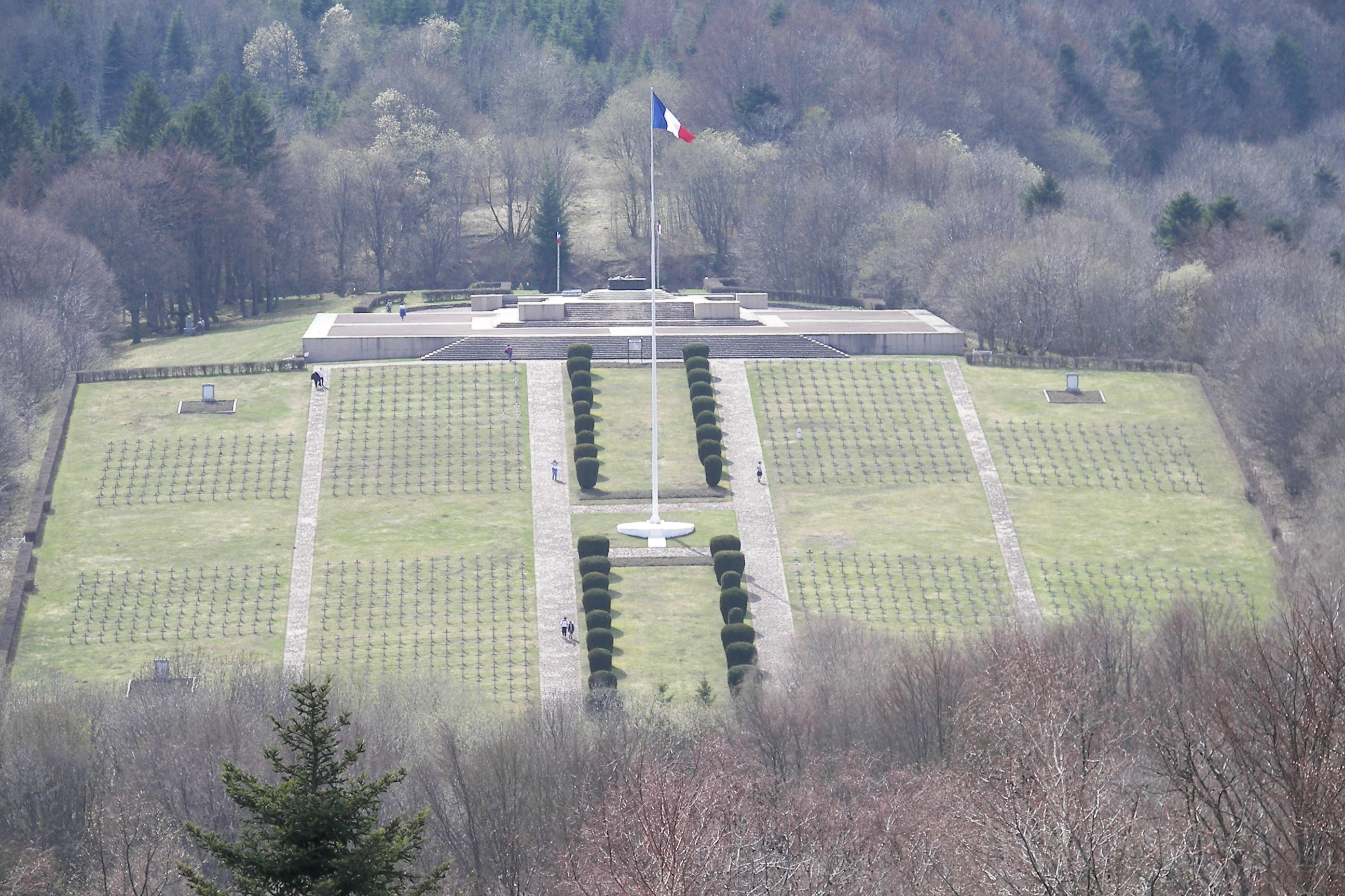 The Cemetery at Hartmannswillerkopf. This photograph was taken by Eva on 24 April 2006.